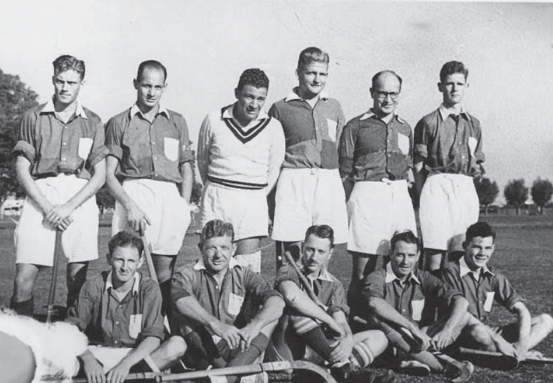 Pacific Railway Athletic Club men's field hockey team in 1943.